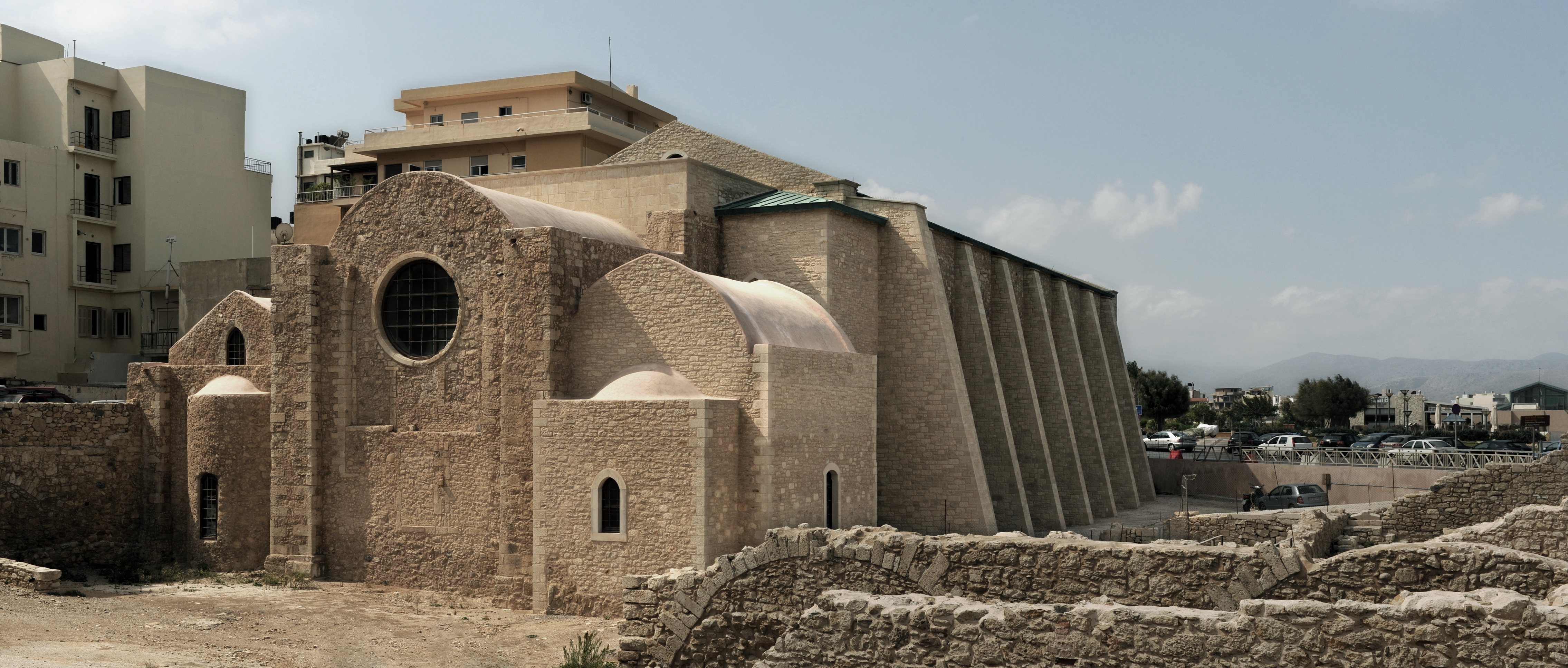 St. Peter of Dominicans, Heraklion, Crete, Greece.